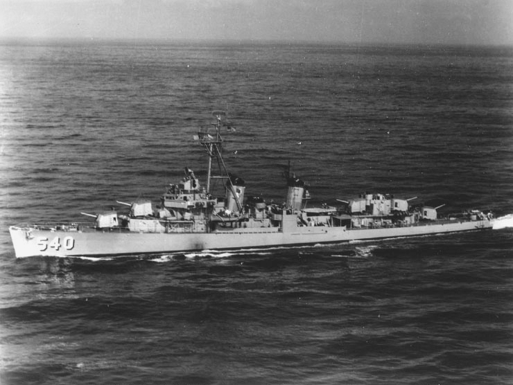 The U.S. Navy destroyer USS Twining (DD-540) during the middle or later 1950s.